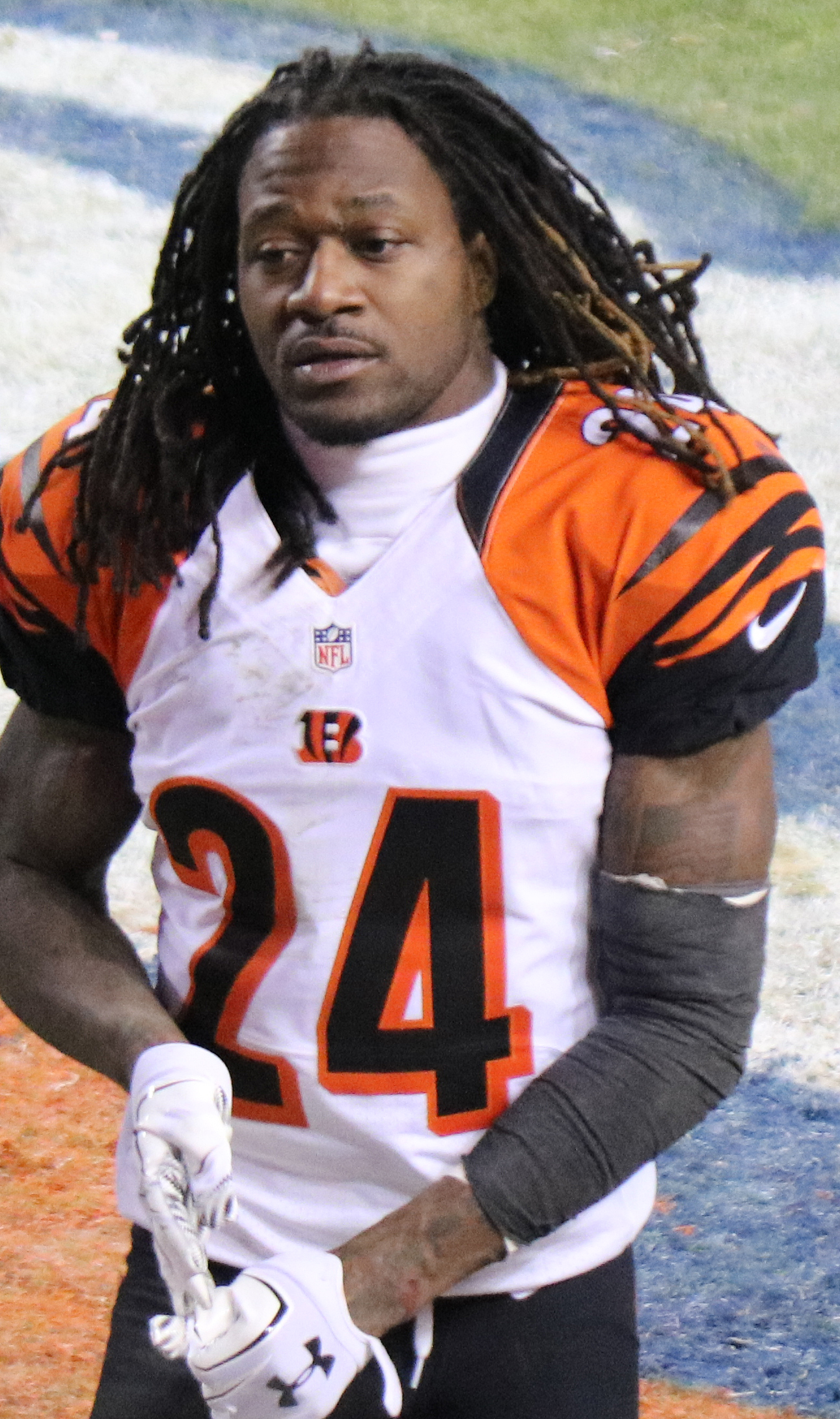 Adam Jones, a player on the National football league.